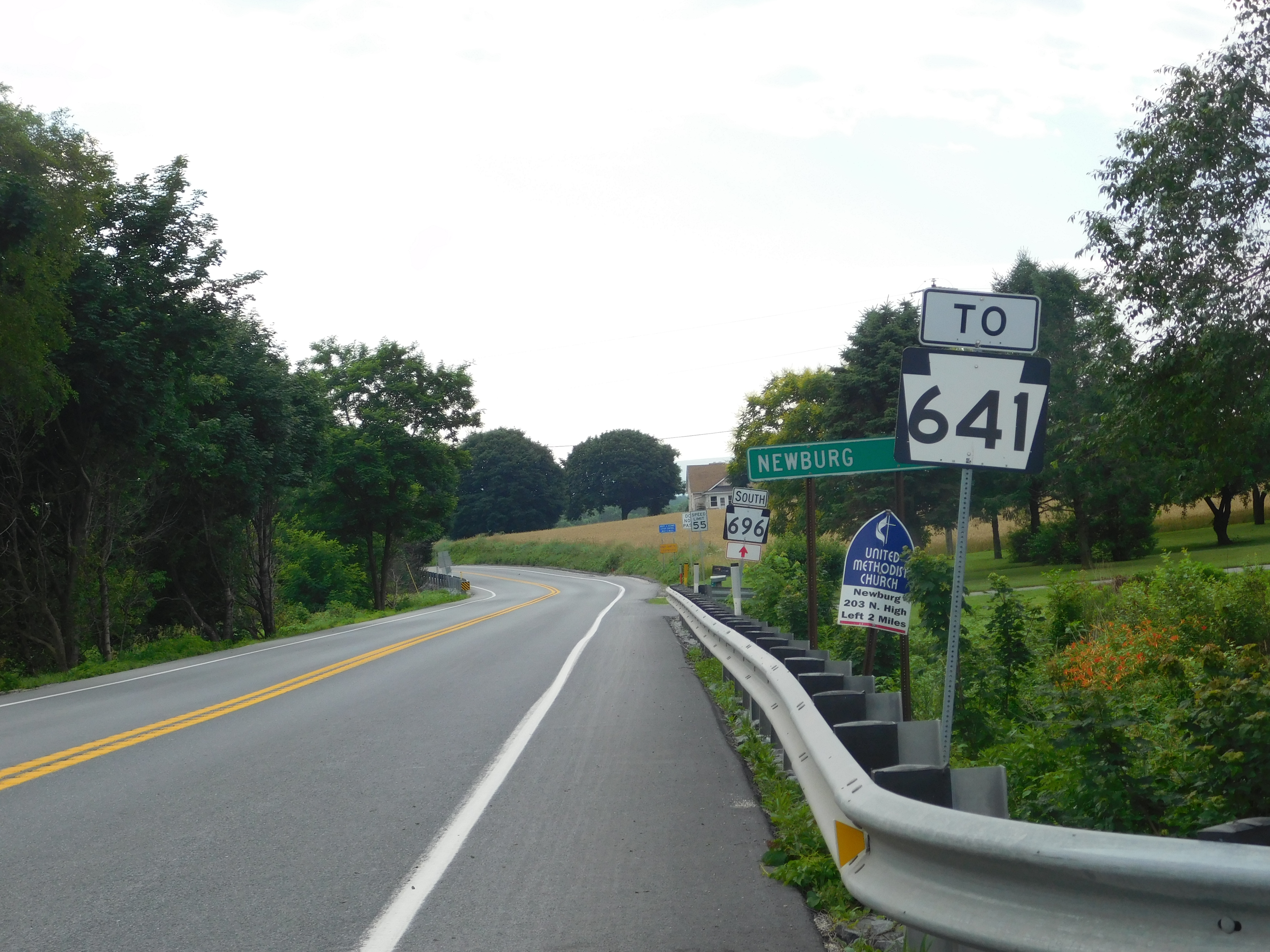 PA 696 in Hopewell Township, Pennsylvania.